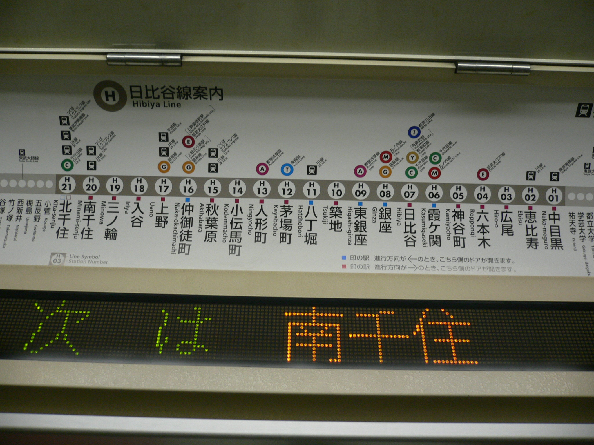 Tokyo Metro Hibiya Line (Tokyo Metro Hibiya Line), Tokyo M.